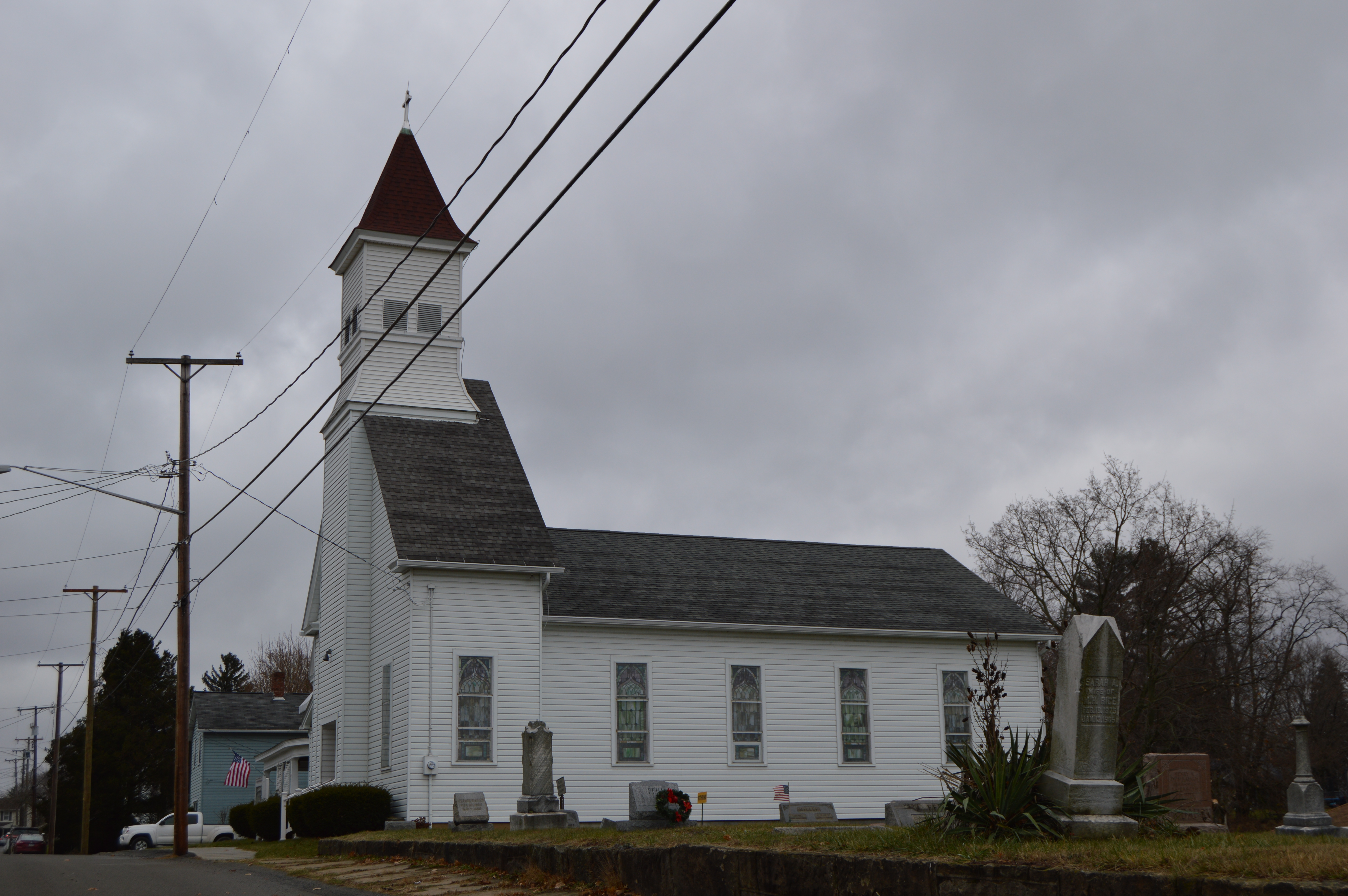 Eastern side and front of St. Paul's United Church of Christ, located on Constitution Avenue in Connoquenessing, Pennsylvania, United States.